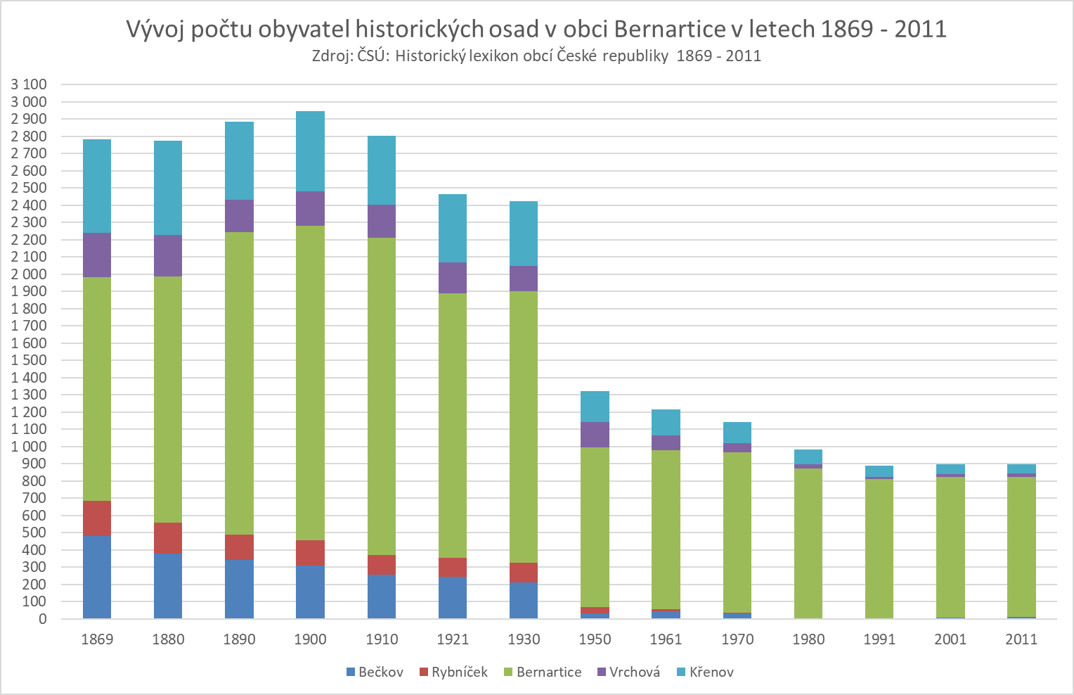 Population of neighbourhoods of Bernartice between 1869 - 2011 Source: ČSÚ: Historický lexikon obcí České republiky 1869 - 2011